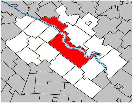 Location of Drummondville, Quebec within Drummond Regional County Municipality.